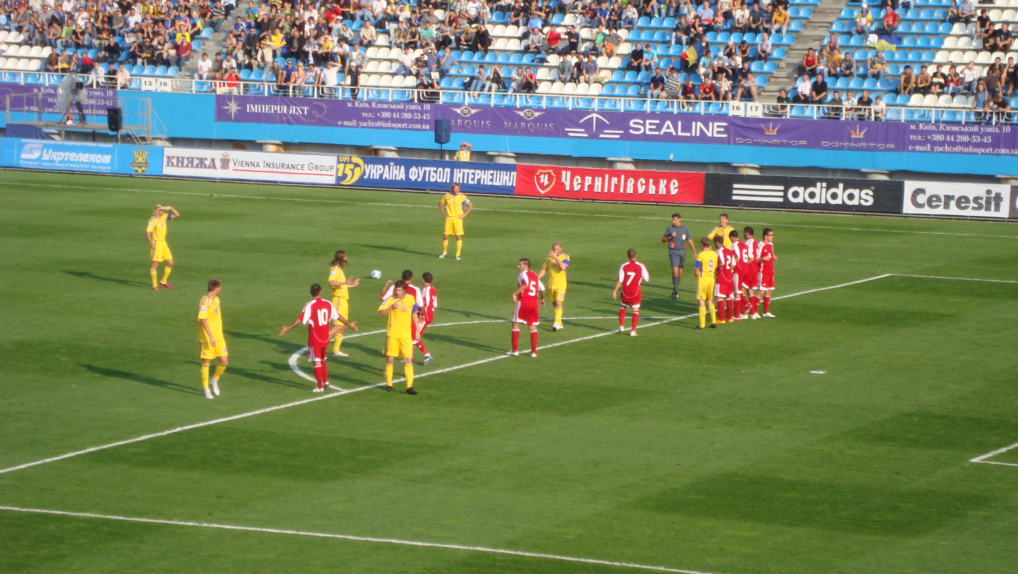 Ukrainian striker Andriy Shevchenko #7 prepares for the free kick during the World Cup Group 6 qualifying soccer match between Ukraine vs Andorra at the Lobanovsky Dynamo Stadium in Kiev, Ukraine, Saturday Sept. 5, 2009.